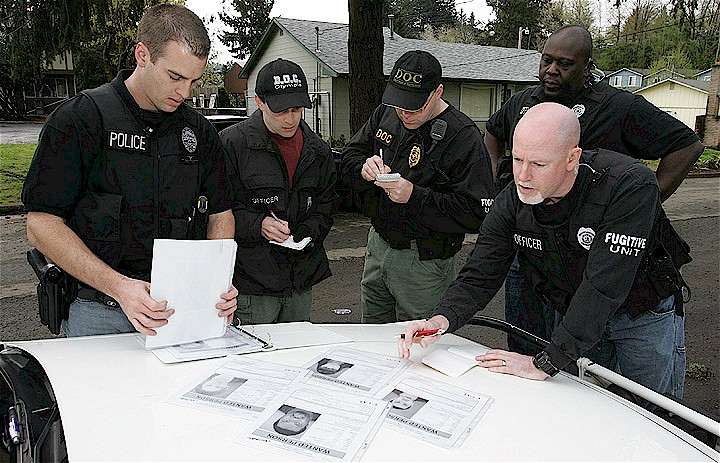 U.S. Marshals Multi-Agency Team Members Preparing for operation FALCON II